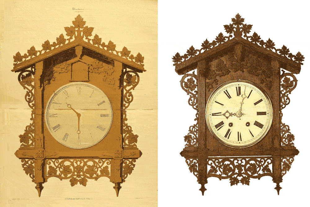 The original design of the Bahnhaeuseluhr, drawing by Friedrich Eisenlohr (left), 1850-1851, realized by Kreuzer, Glatz and Co., Furtwangen, 1853-1854, Inv. 2003-081.